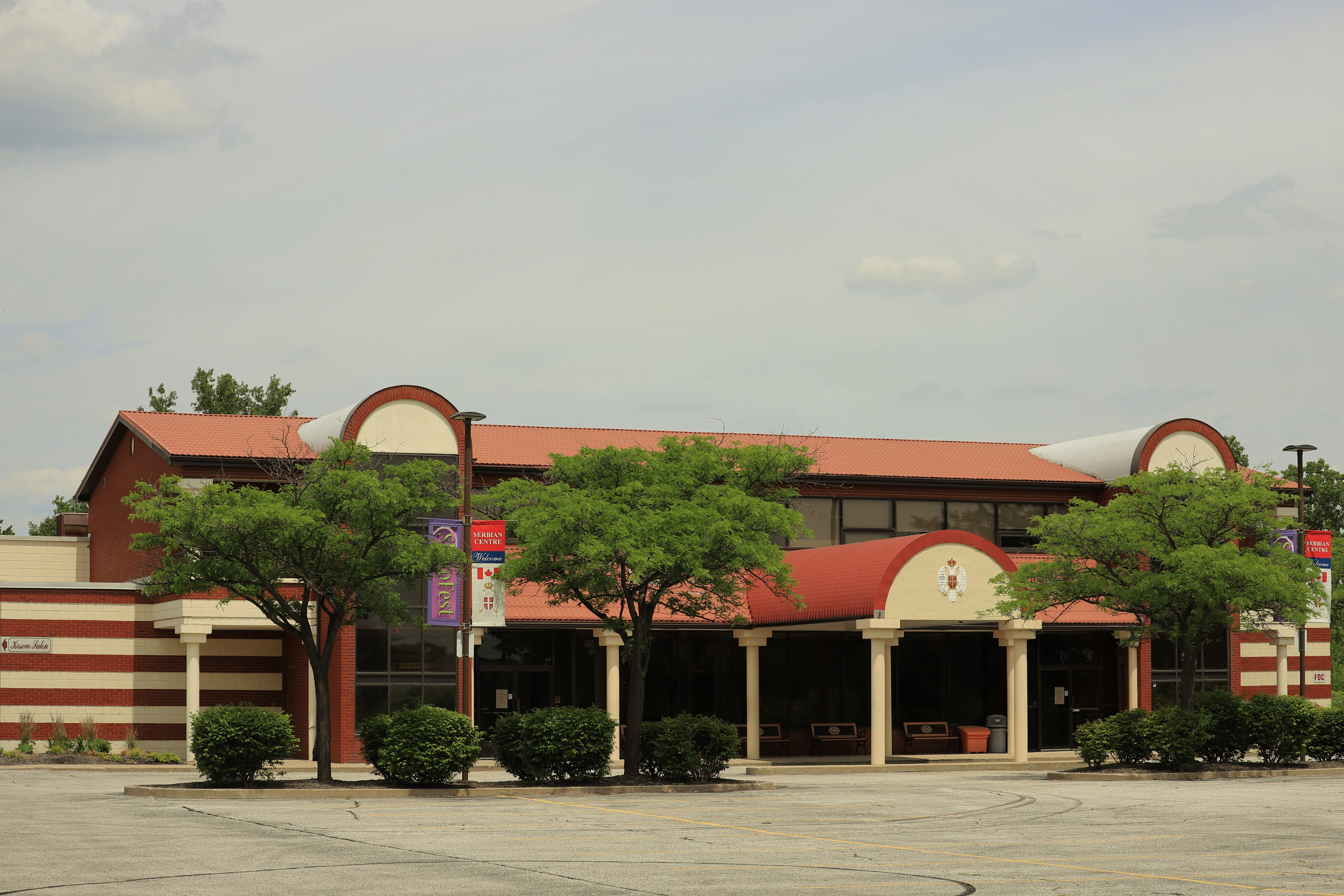 The Serbian Centre in Windsor, a community facility and hall. Houses the Serbian Heritage Museum.